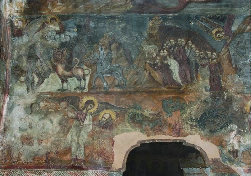 THE CHURCH OF THE DORMITION OF THE THEOTOKOS IN ASKLIPIO, RHODES